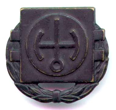 Fatigue version of ANPP Nuclear Power Plant Operator, Second Class badge.